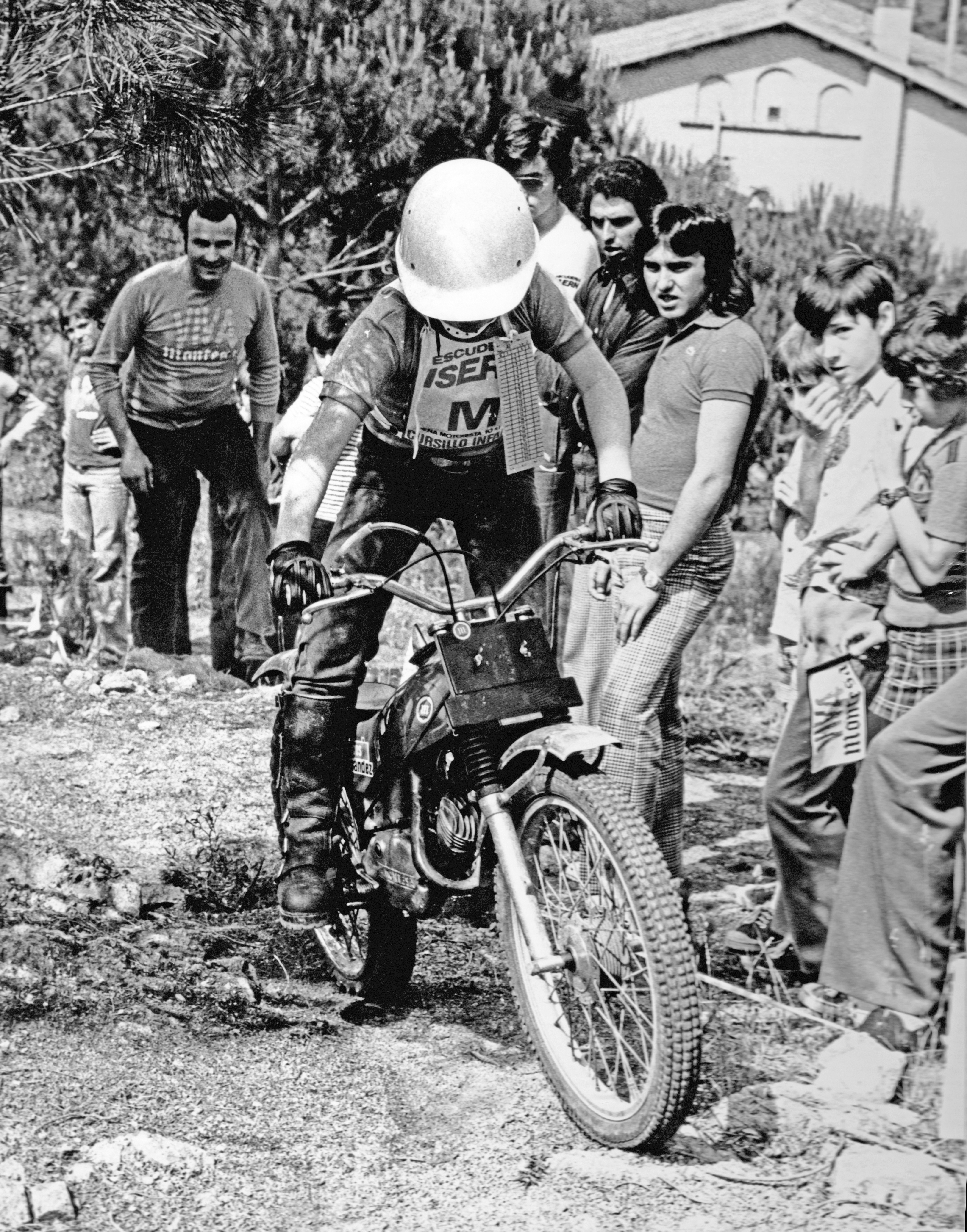 Children motorcycle trials course held per Isern and the Penya Motorista 10 x Hora around la Conreria in the early 70s